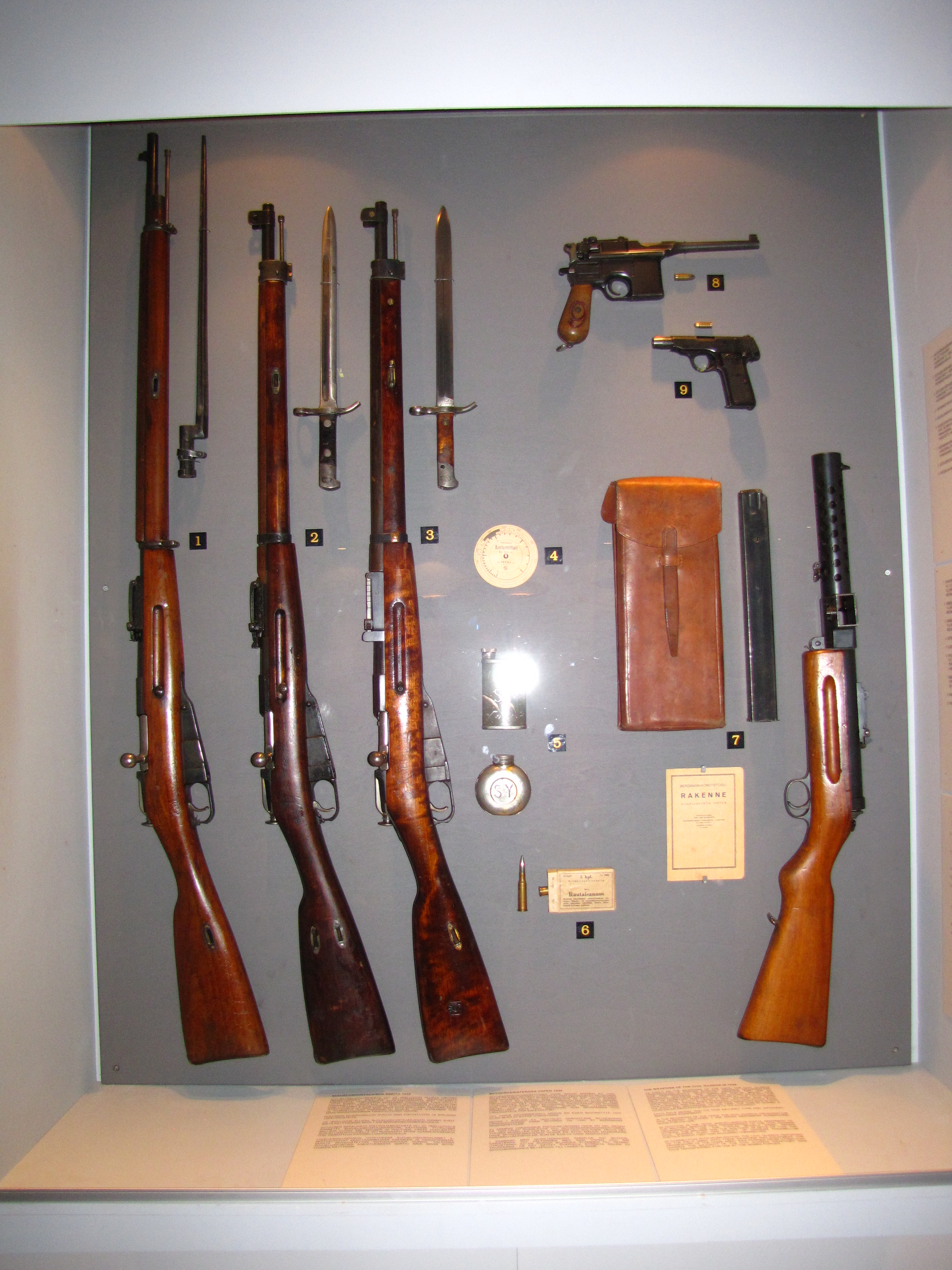 Weapons used by Finnish civil guard: Finnish 7.62 mm infantry rifle M/91-24 "lotta rifle" with M/91-24 bayonet. Finnish 7.62 mm rifle M/28 with M/28 Sk bayonet. Finnish 7.62 mm rifle M/28-30 with M/28-30 bayonet. Sight adjustment disk for M/28-30 rifle. Civil guard oil flasks. Civil guard "iron ration", five 7.62 mmm rounds in a sealed package. Intended only for emergencies. 7.65 mm Bergmann MP 18 submachine gun with magazine, magazine pouch and instruction booklet. Finnish designation M/20. 9 mm Mauser C96 pistol "red 9" variant. Finnish designation M/96-16. 7.65 mm Walther 4 pistol Photographed in the "Winter War - 70 years" exhibition in the Military Museum of Finland.